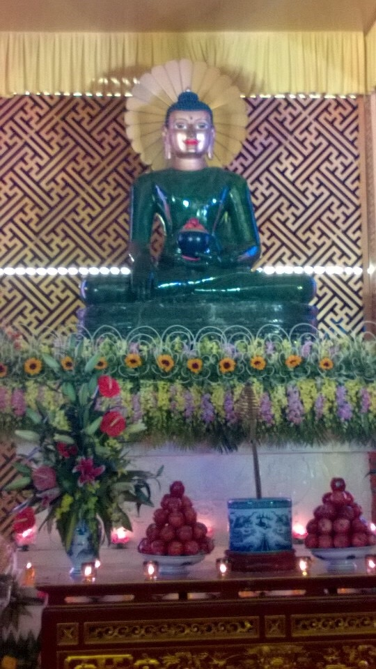 Gem Buddha for Universal peace on display at Hoang Phuc Pagoda, Quang Binh, Vietnam